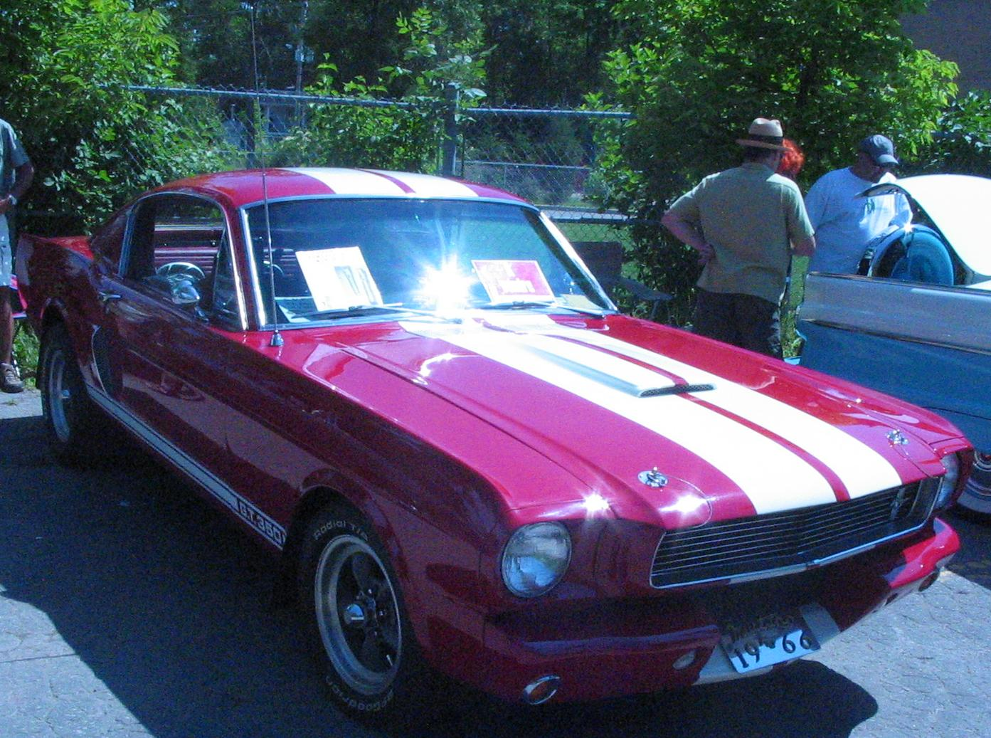 1966 Shelby Mustang photographed in Laval, Quebec, Canada at the Auto classique Laval.